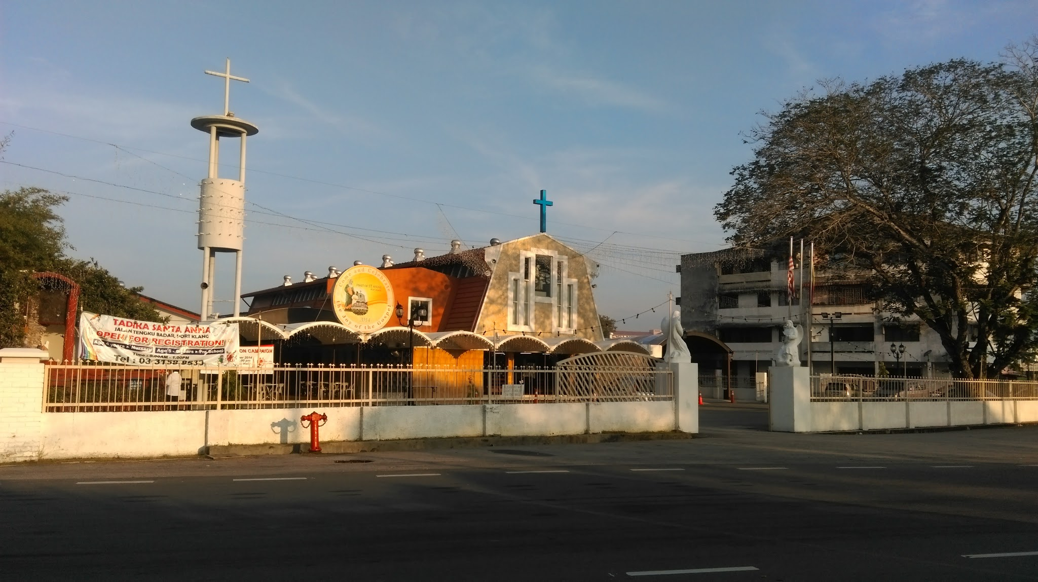 Church of St Anne, Port Klang, Malaysia